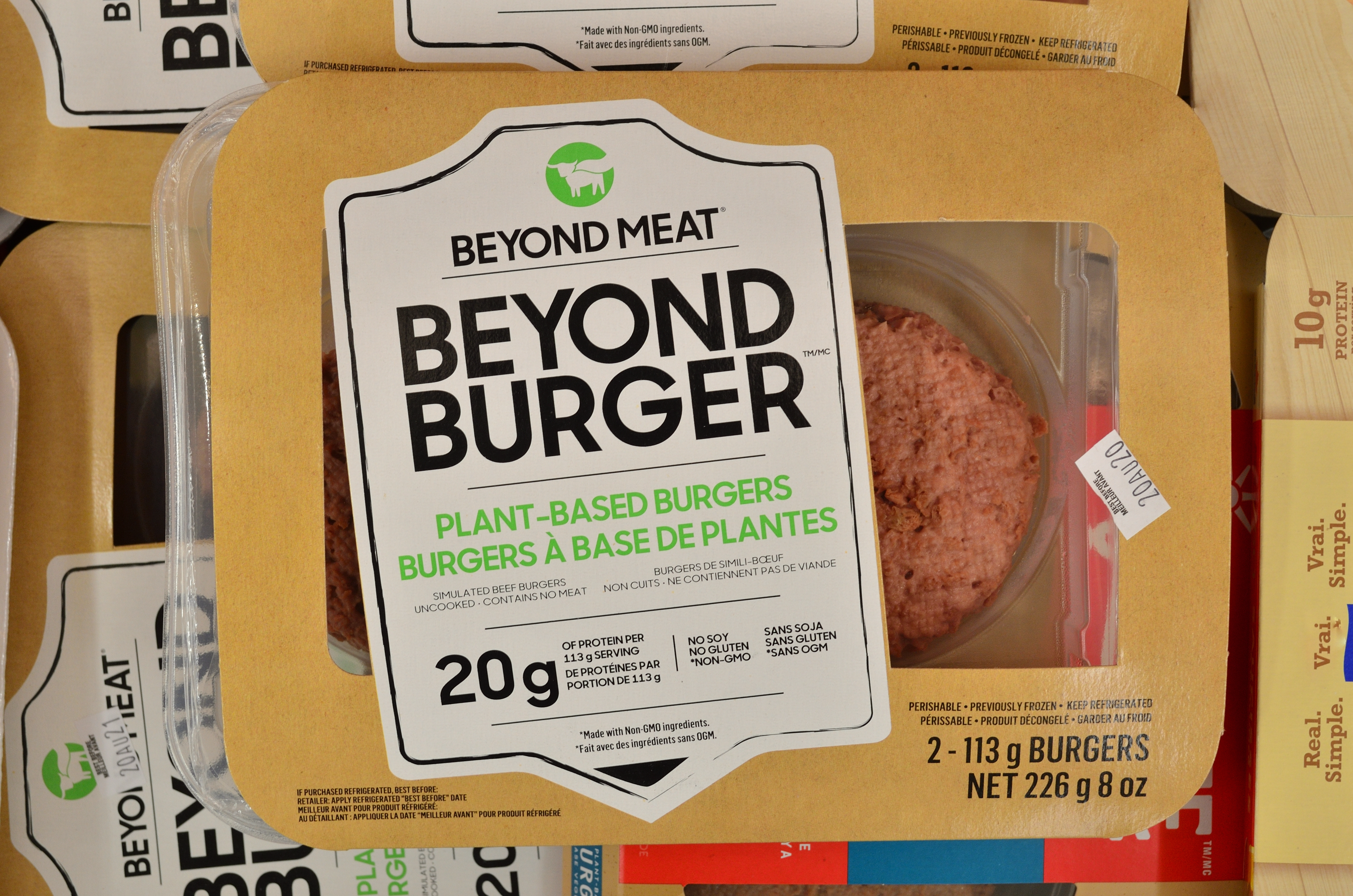 Beyond Burger